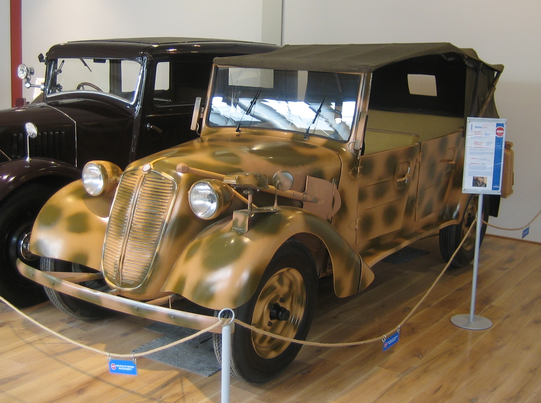 Tatra 57K in Veteran Arena Olomouc